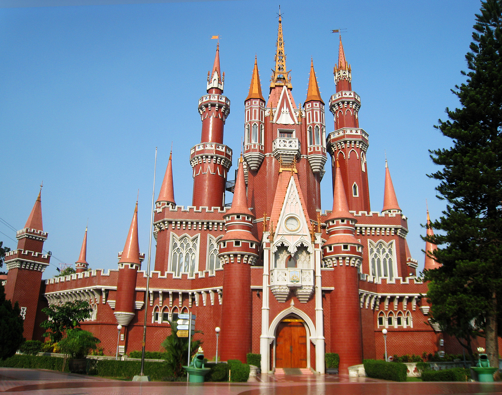 Istana Anak-anak Indonesia or Castle of Indonesian Children, the fairy tale castle and playground in Taman Mini Indonesia Indah, Jakarta.